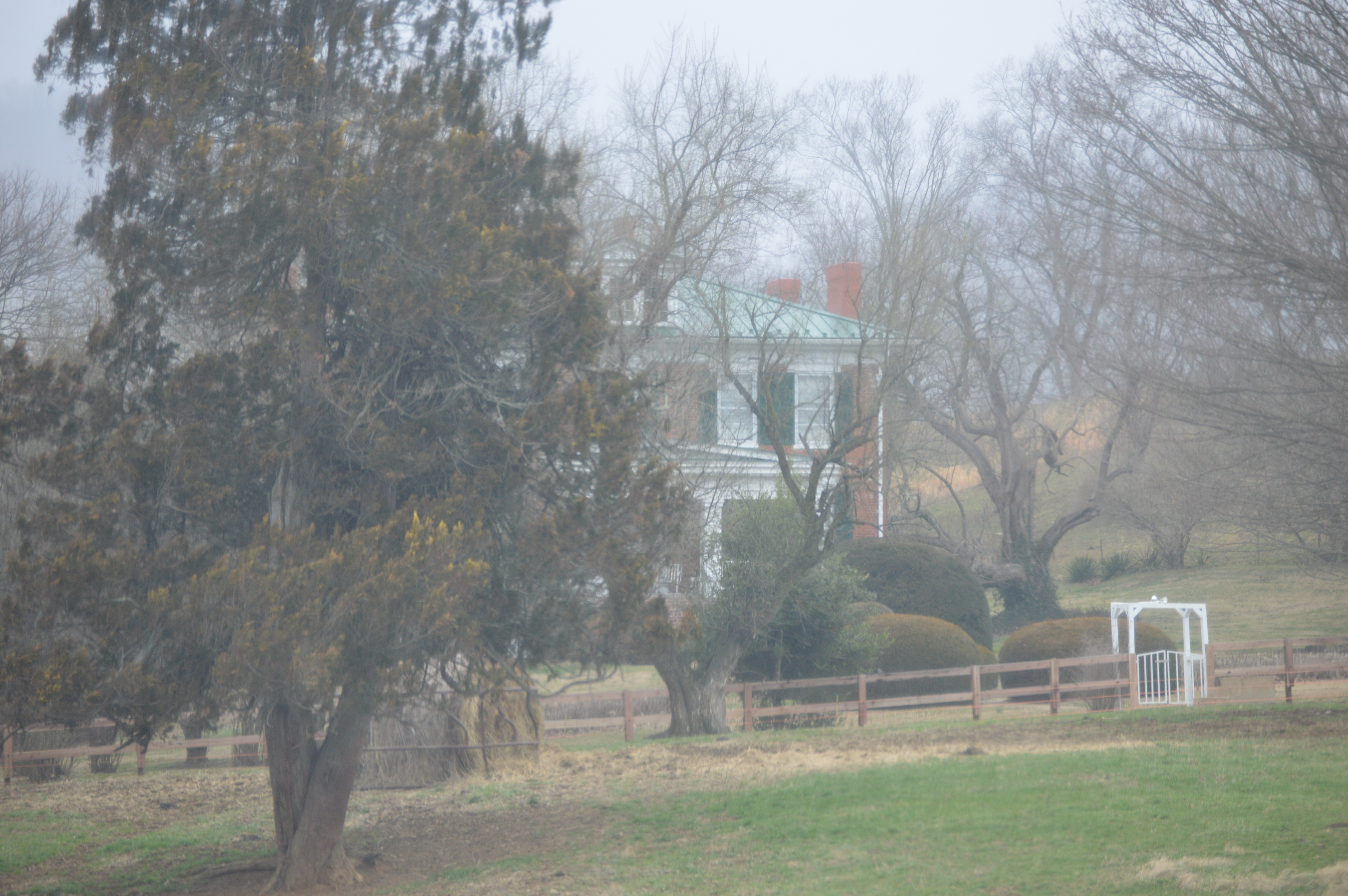 Distant view of Smithfield, located on U.S. Route 19/State Route 80 southwest of Rosedale in Russell County, Virginia, United States. Built in 1848, it is listed on the National Register of Historic Places.